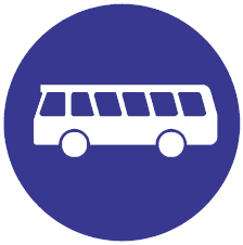 Luxembourg road sign diagram